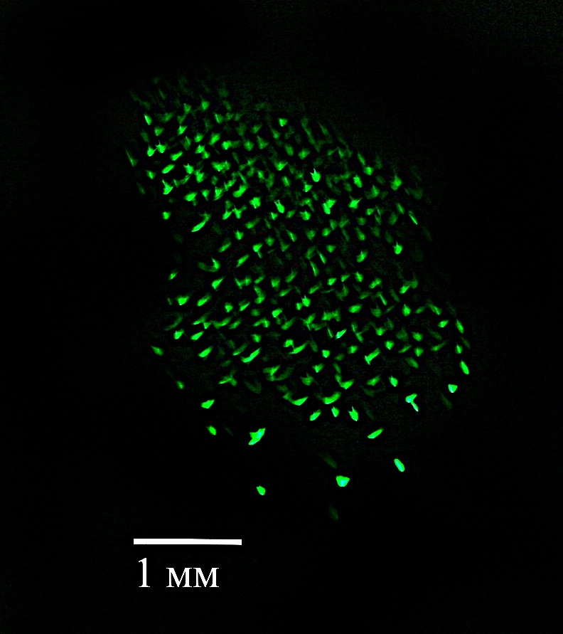 Usual size of dusty plasma in glow discharge